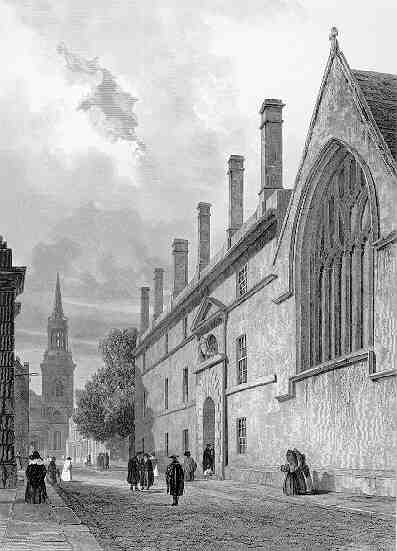 A view of Jesus College, Oxford and Turl Street from "Antique prints of Oxford. Illustrations of Oxford being select views of the colleges, halls and other public edifices, including the most recent additions and alterations, with historical and descriptive letter press. Fine and scarce engravings of Oxford and Oxford Colleges Published by James RYMAN, Printseller, High Street (Oxford). 1839"